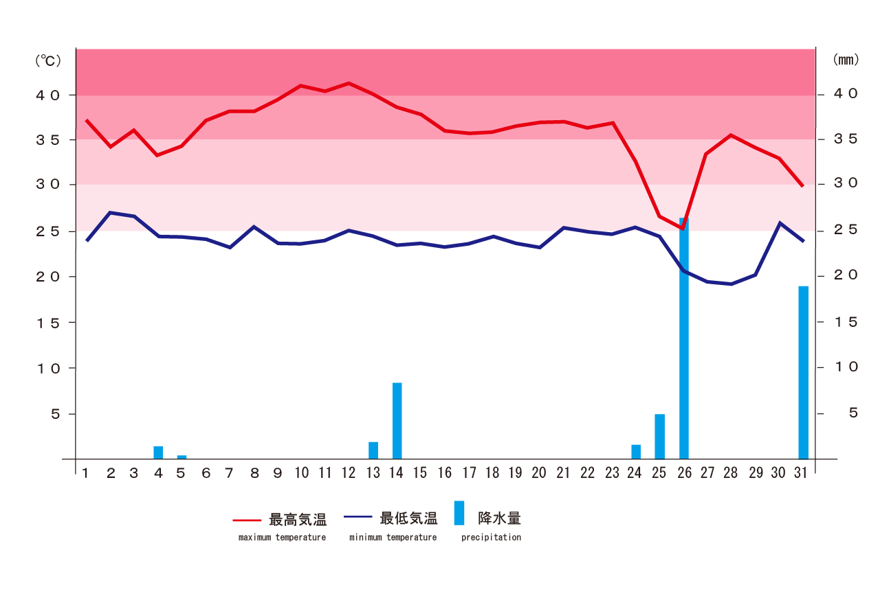 This is a hythergraph of Ekawasaki, Shimanto city, Kochi, Japan in August 2013.